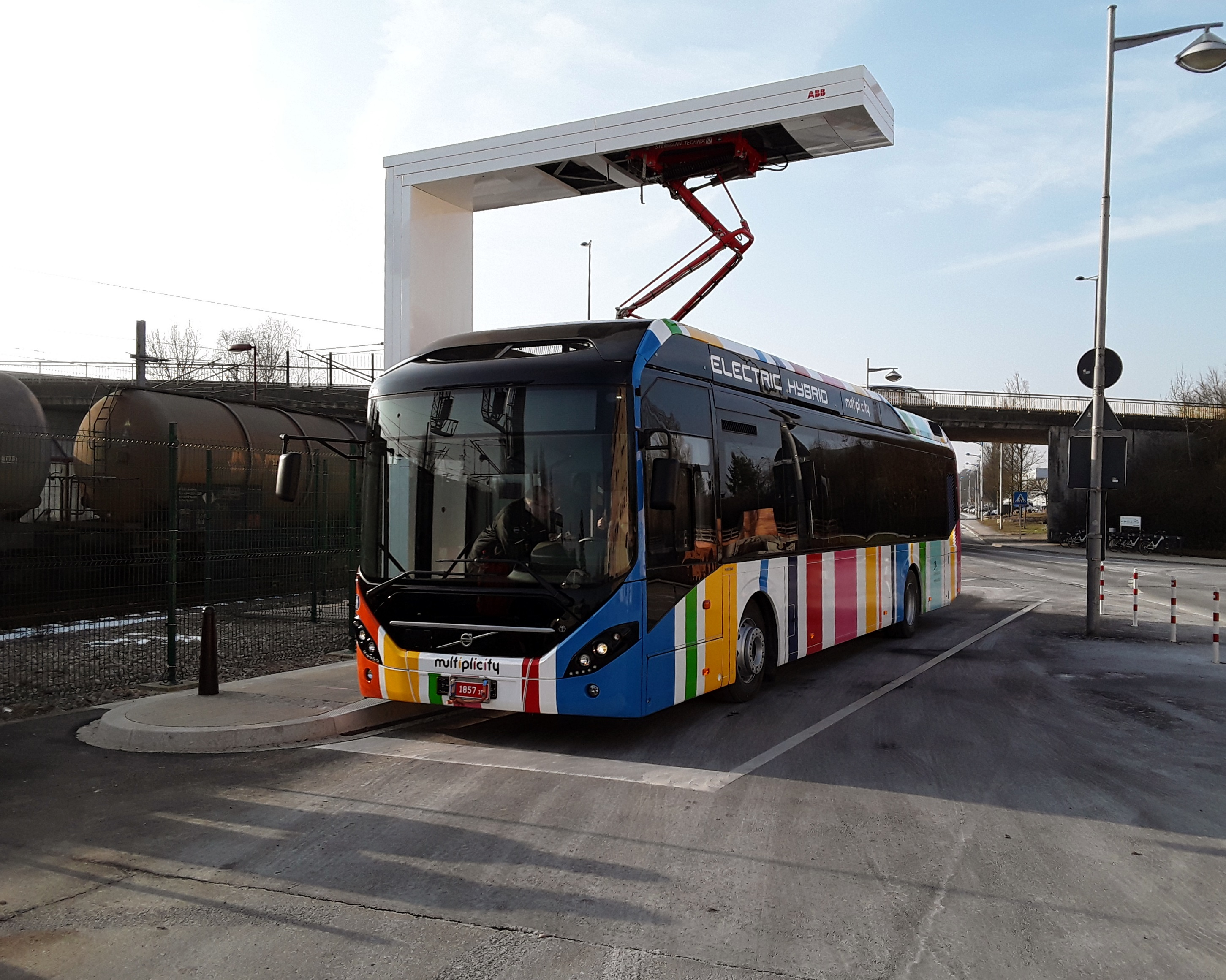 Volvo 7900 Electric Hybrid from AVL (Ville de Luxembourg) at fast charging station in Bertrange, Luxembourg.